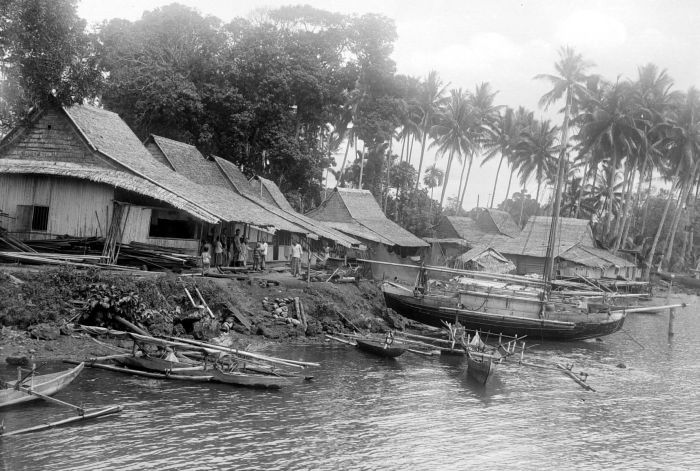 Houses and proas at a beach near Djailolo